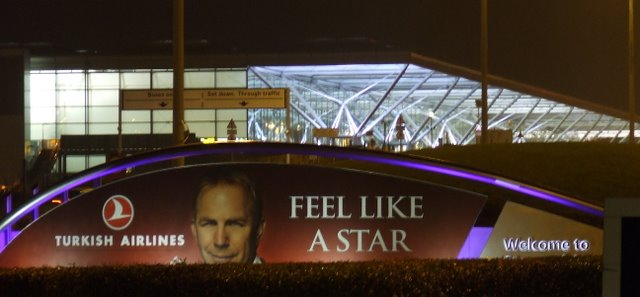 Stansted Airport Kevin Costner advertising Turkish Airlines at the main road entrance to the airport.